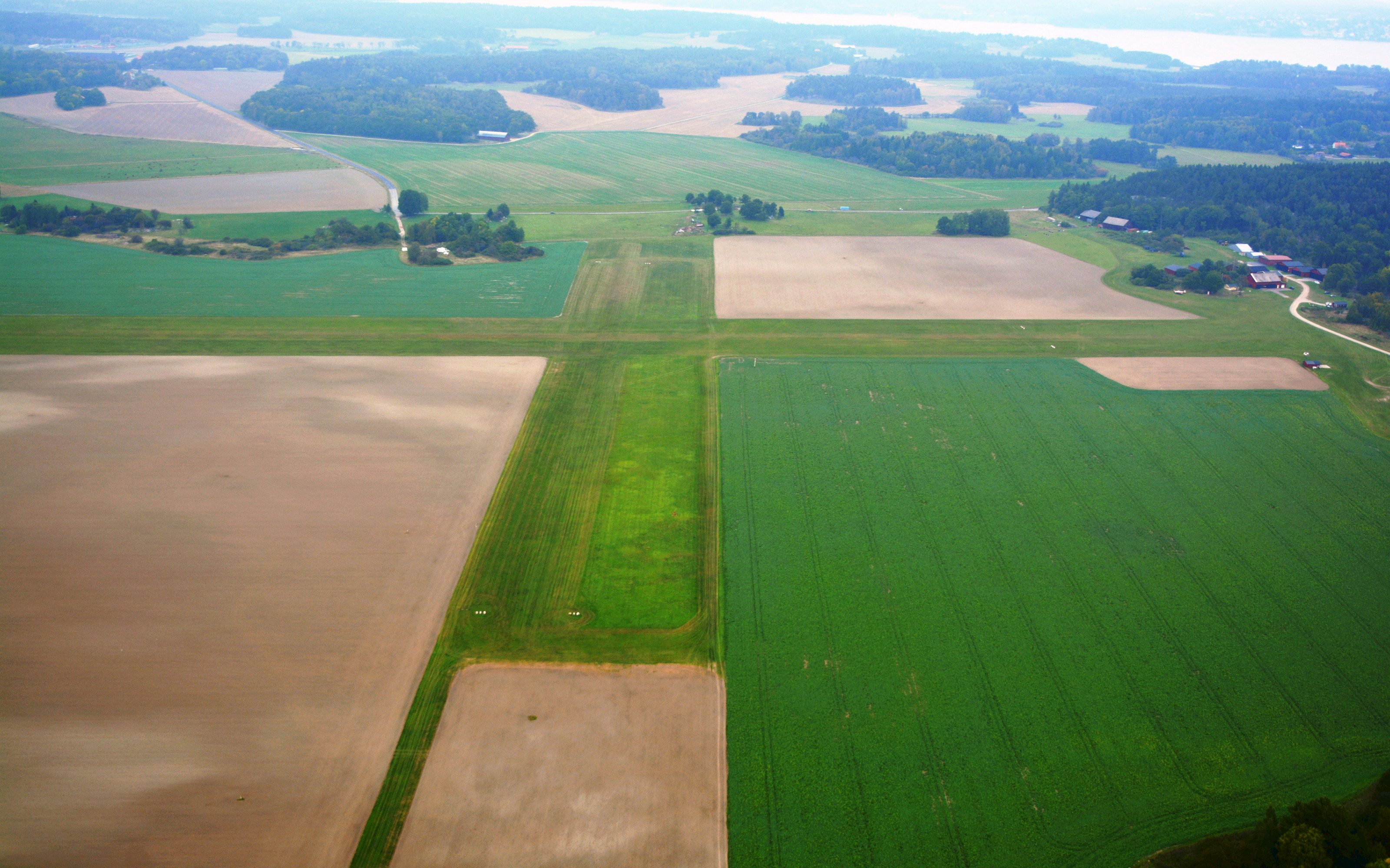 Skå-Edeby airfield on Färingsö in Ekerö municipality.